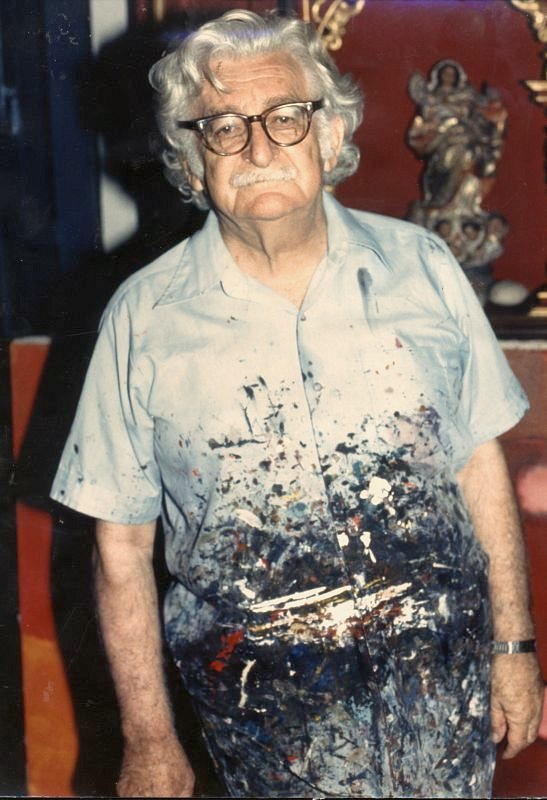 Roberto Burle Marx (1909 - 1994) — renowned Brazilian landscape designer, botanist, painter, sculptor, and conservationist.